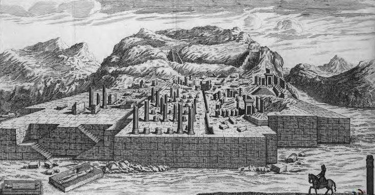 Drawing of perspolis 1713 by Gérard Jean-Baptiste (1671-1716)